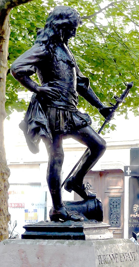 Young Turenne statue - Paris - cropped version